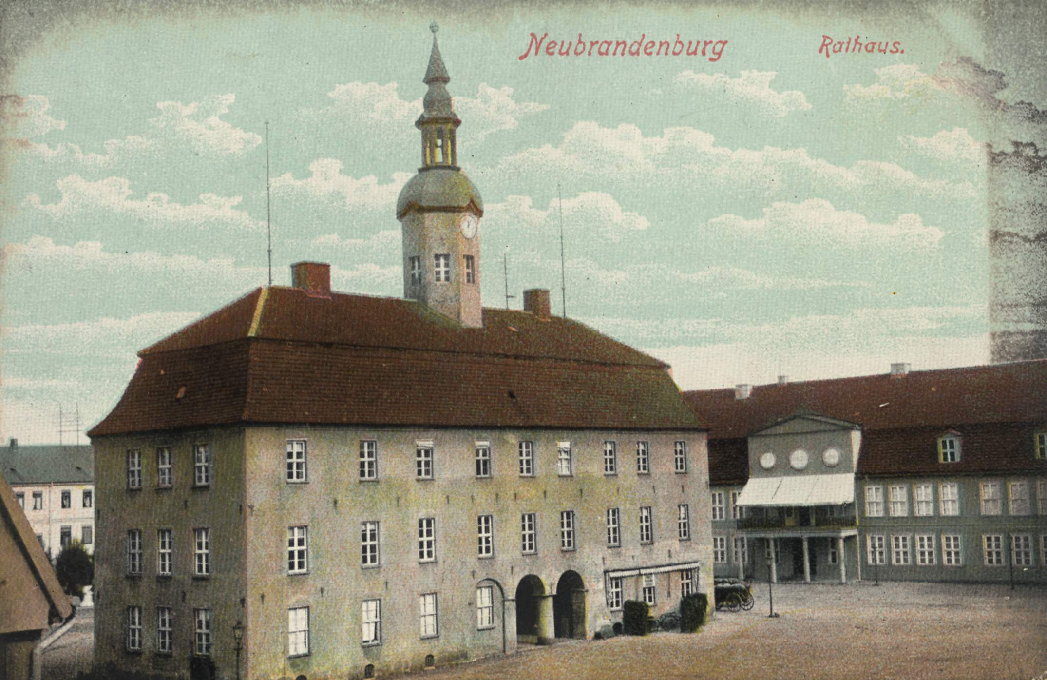 The old town hall at the market square of Neubrandenburg. It dates back to the 14th century. The shown version was completed in 1747, after it burned down several times. During the city fire of 1945 (World War II) the building was heavily damaged, but still stood. It was planned to reconstruct it in the 1950s, but those plans sadly were rejected. In 1950, the town hall building was demolished. The only thing left: Some groundwork of the basement, that was excavated during archaeological works since 2006. It's planned to build a fountain system above the archaeological monument and seal it this way - which would undoubtly endanger it.